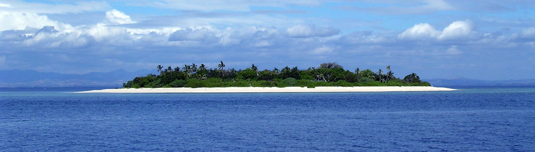 I created this picture and I release this picture into the public domain. Remember 05:33, 14 August 2006 (UTC)